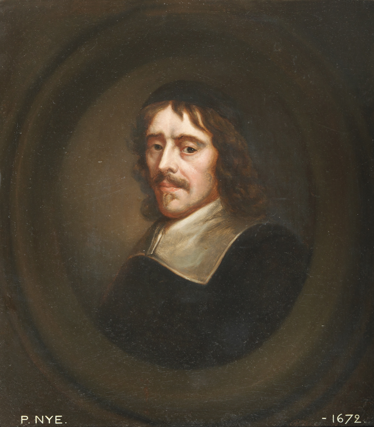 Depicted person: Philip Nye